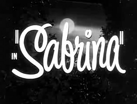 Screenshot from the trailer for the film Sabrina (1954 film)